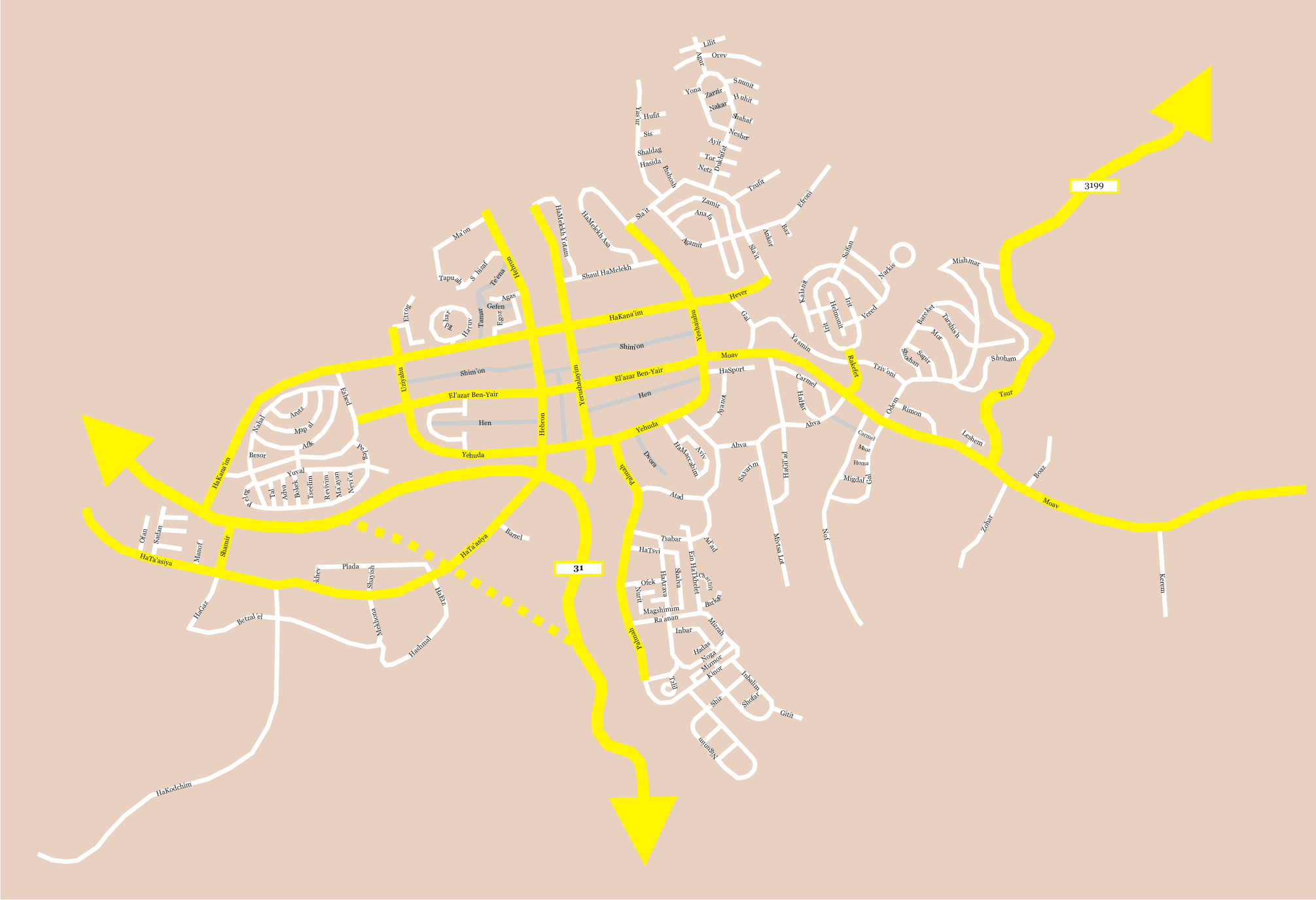 Street map of Arad, Israel, made by me.